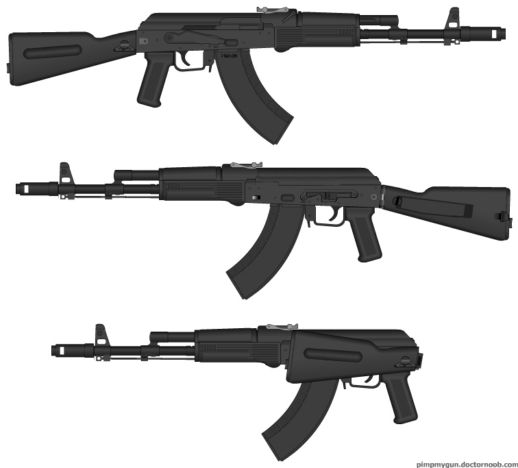 Artist's rendition of AK-100 pattern rifle. Copyright (c) by KatUteev from Flickr, licensed CC-BY-SA.